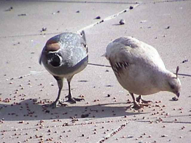 White Gambel's Quail eating with normally-coloured mate, Paradise Valley AZ. Note This image was the very first uploaded to Wikimedia Commons.